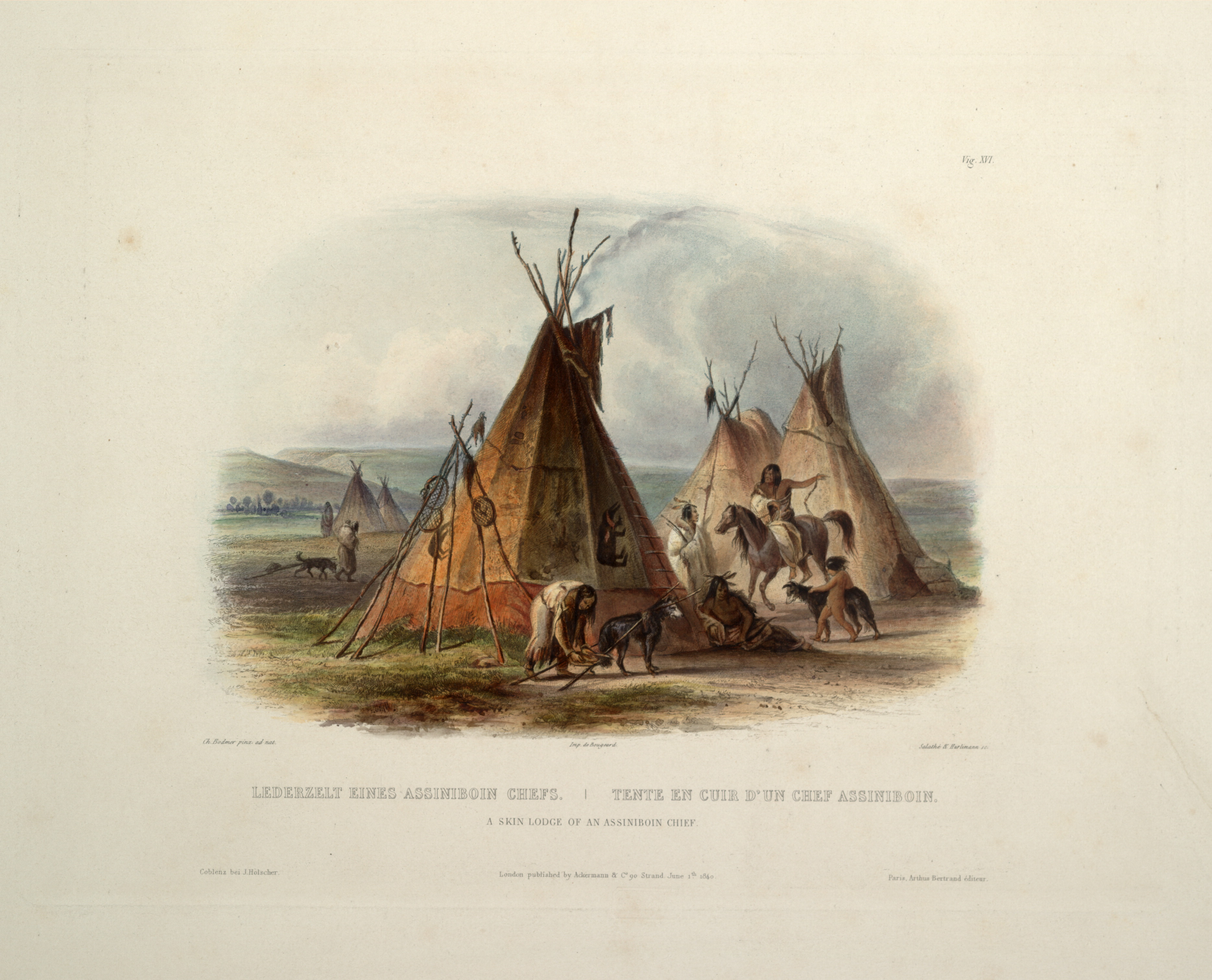 A skin lodge of the Assiniboin chief